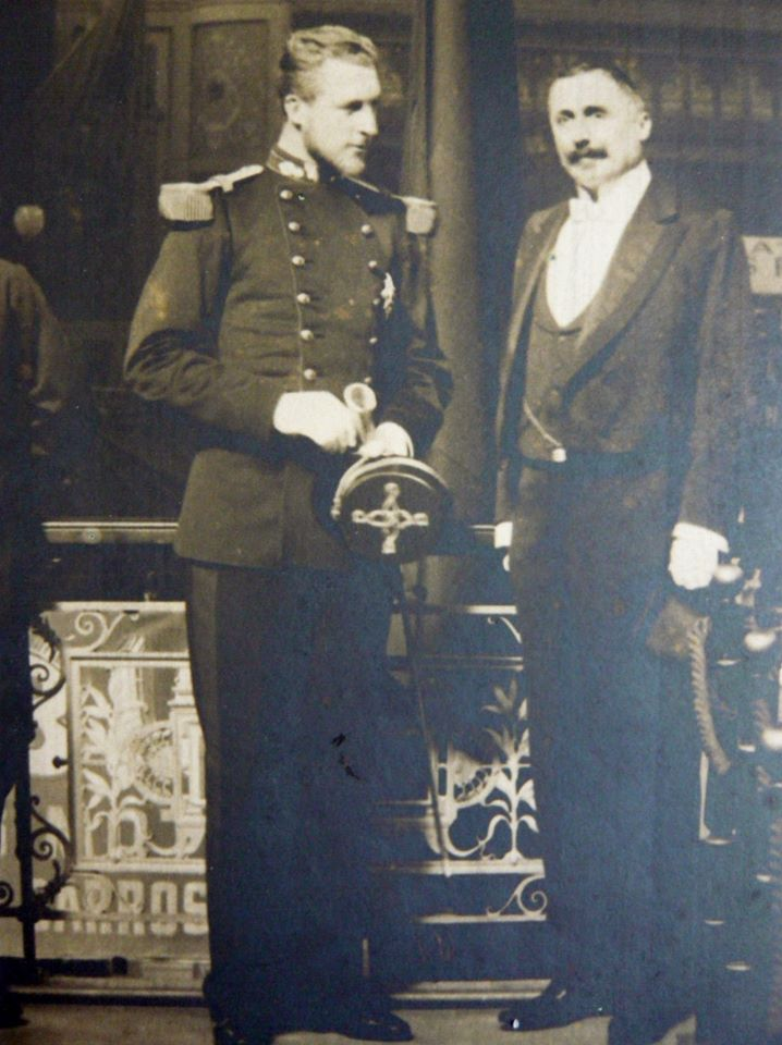 Альберт I (король Бельгии)